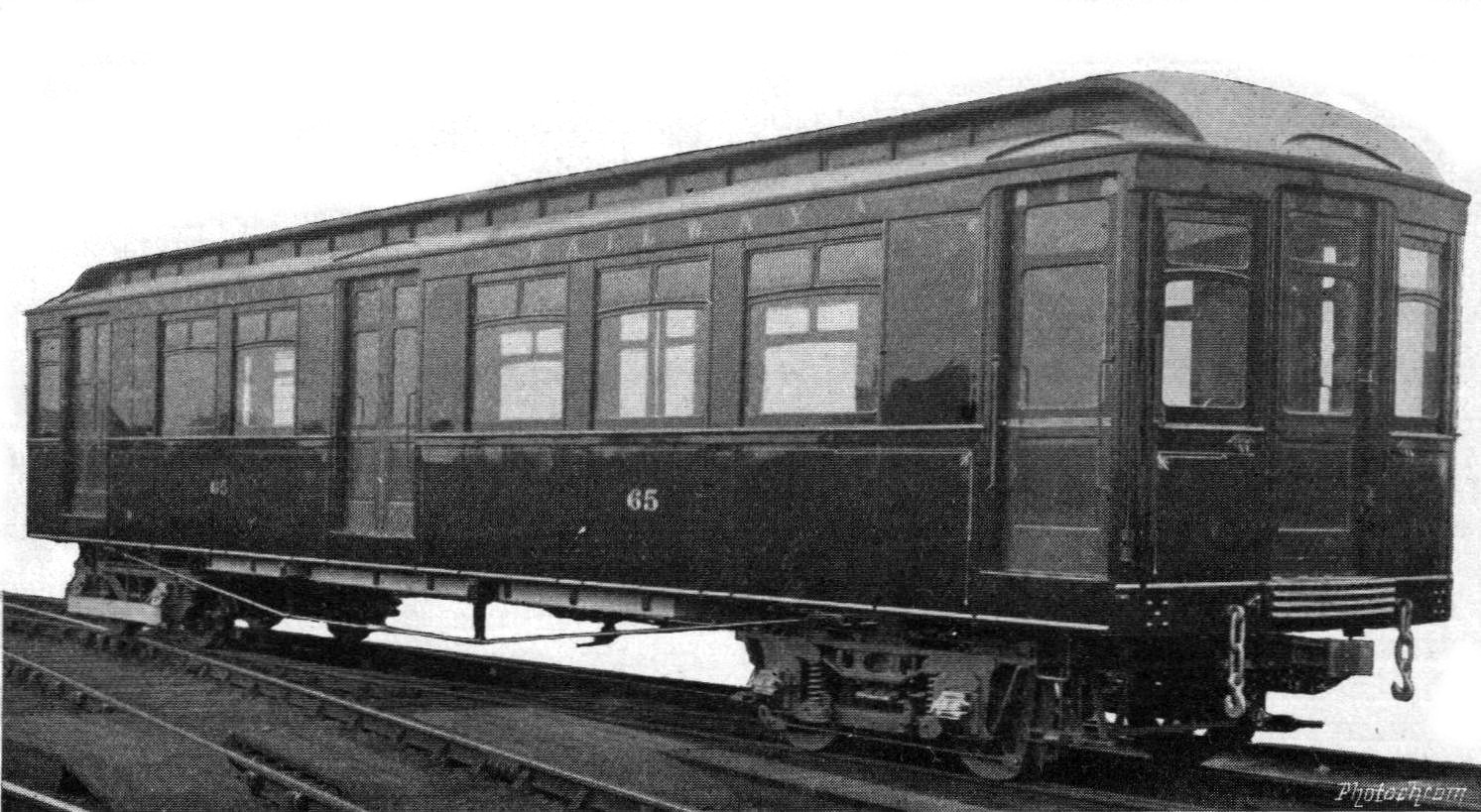 Metropolitan District Railway coach (Railway Magazine, 100, October 1905).jpgBritish-built Coach for Electric Trains of the Metropolitan District Railway